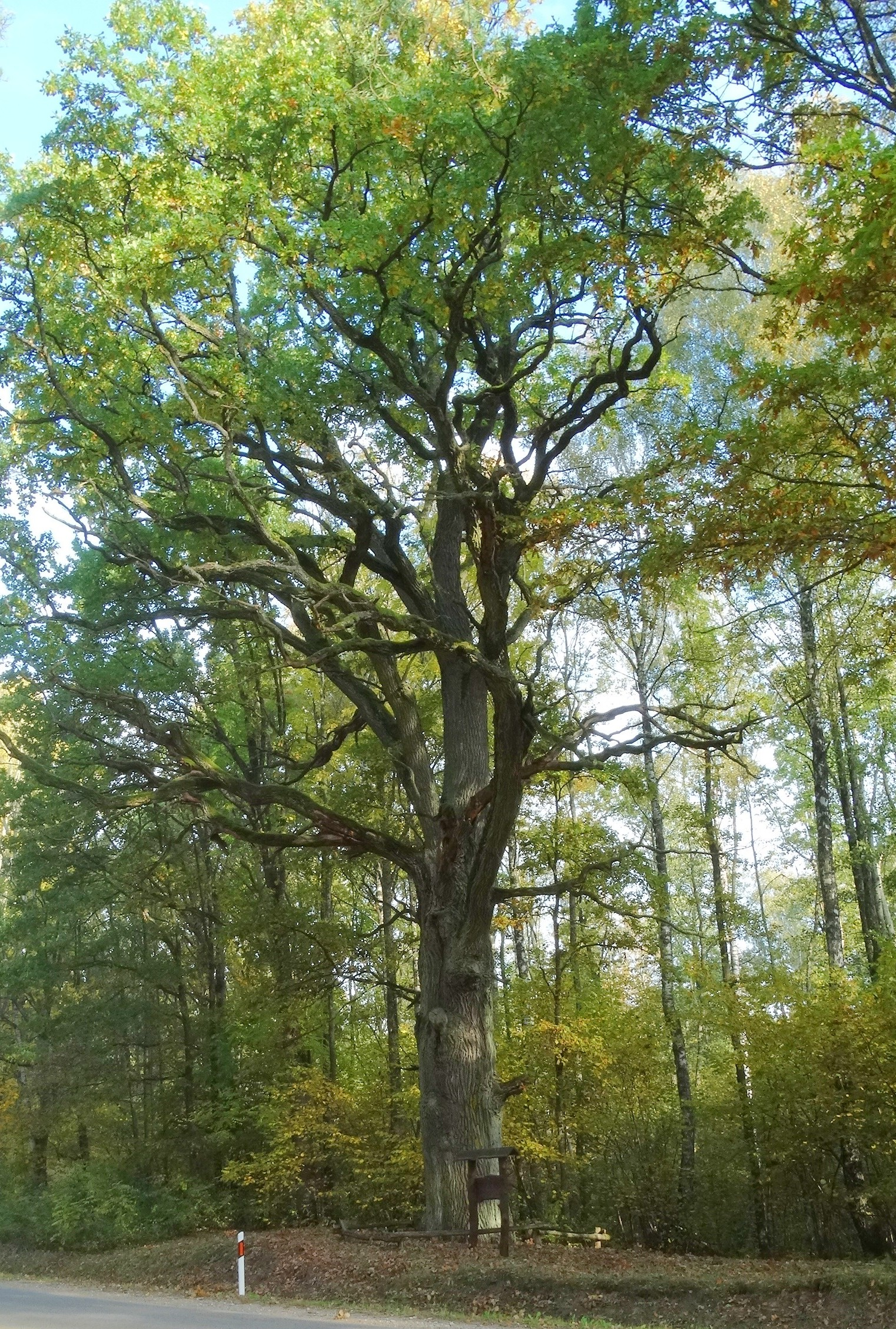 Didysis Širvinto Oak, Lazdijai district, Lithuania